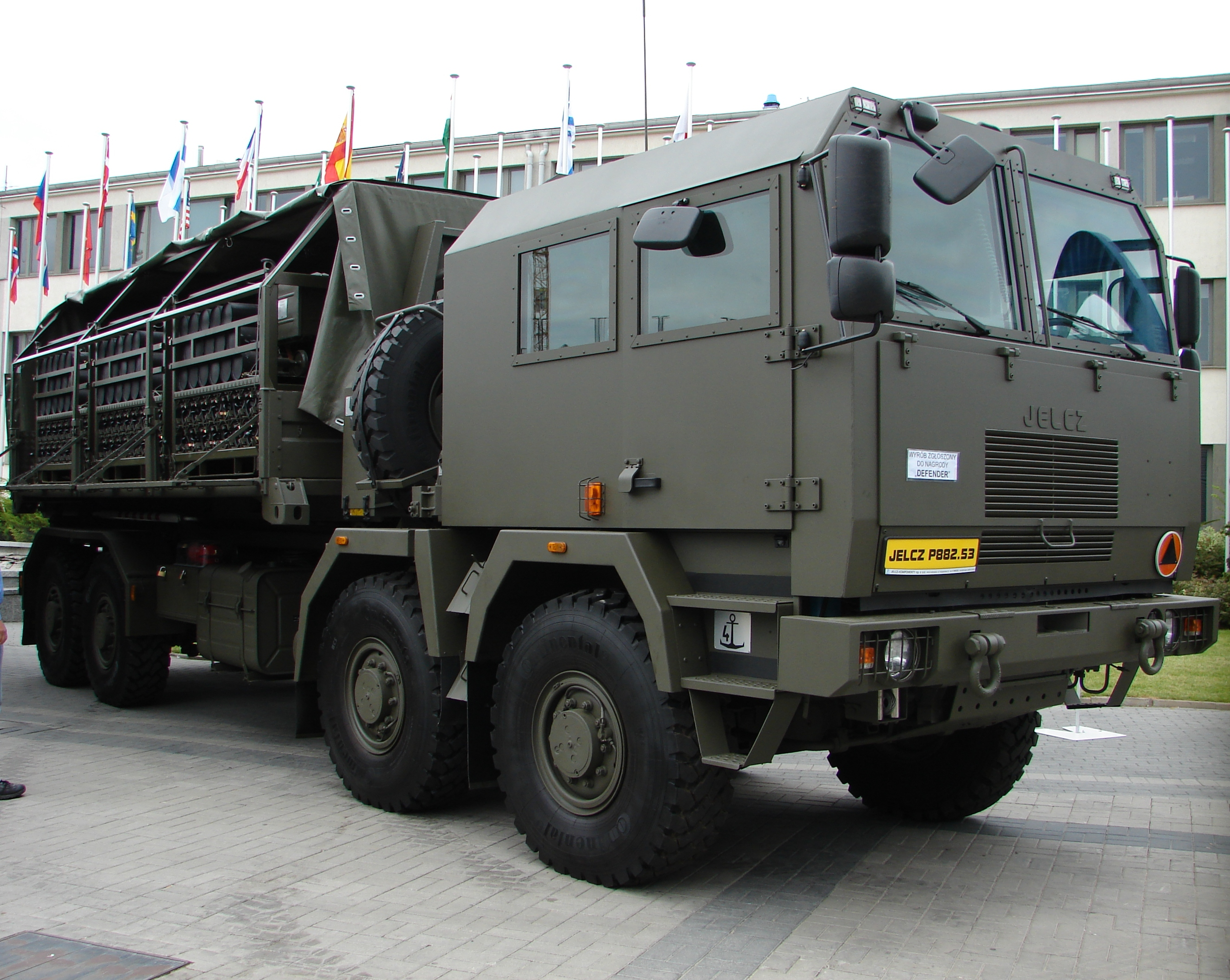 Jelcz P882 D53 jako wóz amunicyjny 155-mm armatohaubic Krab